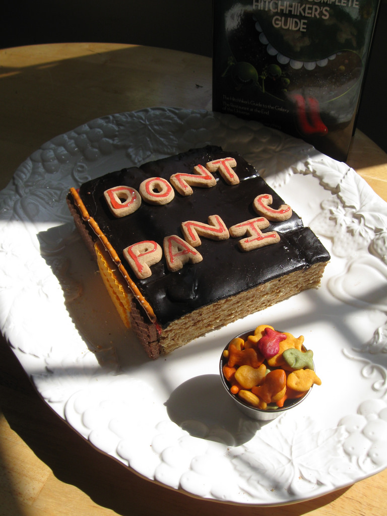 Cake made in the shape of a book, with exposed layers resembling pages.